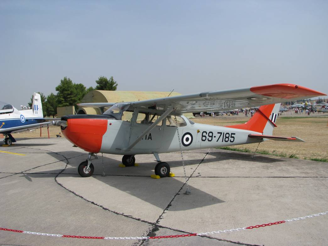 A Hellenic Air Force T-41 Mescalero displayed at the 2008 HAF air show, in Tanagra airbase, Greece